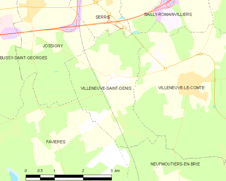 Map of French municipality Villeneuve-Saint-Denis